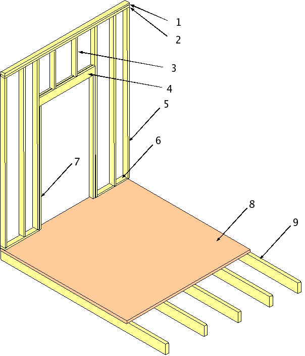 Drawing showing carpentry construction details, 1:cap plate, 2:top plate, 3:cripple stud, 4:header, 5:stud, 6:shoe plate, 7:jack stud, 8:subfloor, 9:joist.